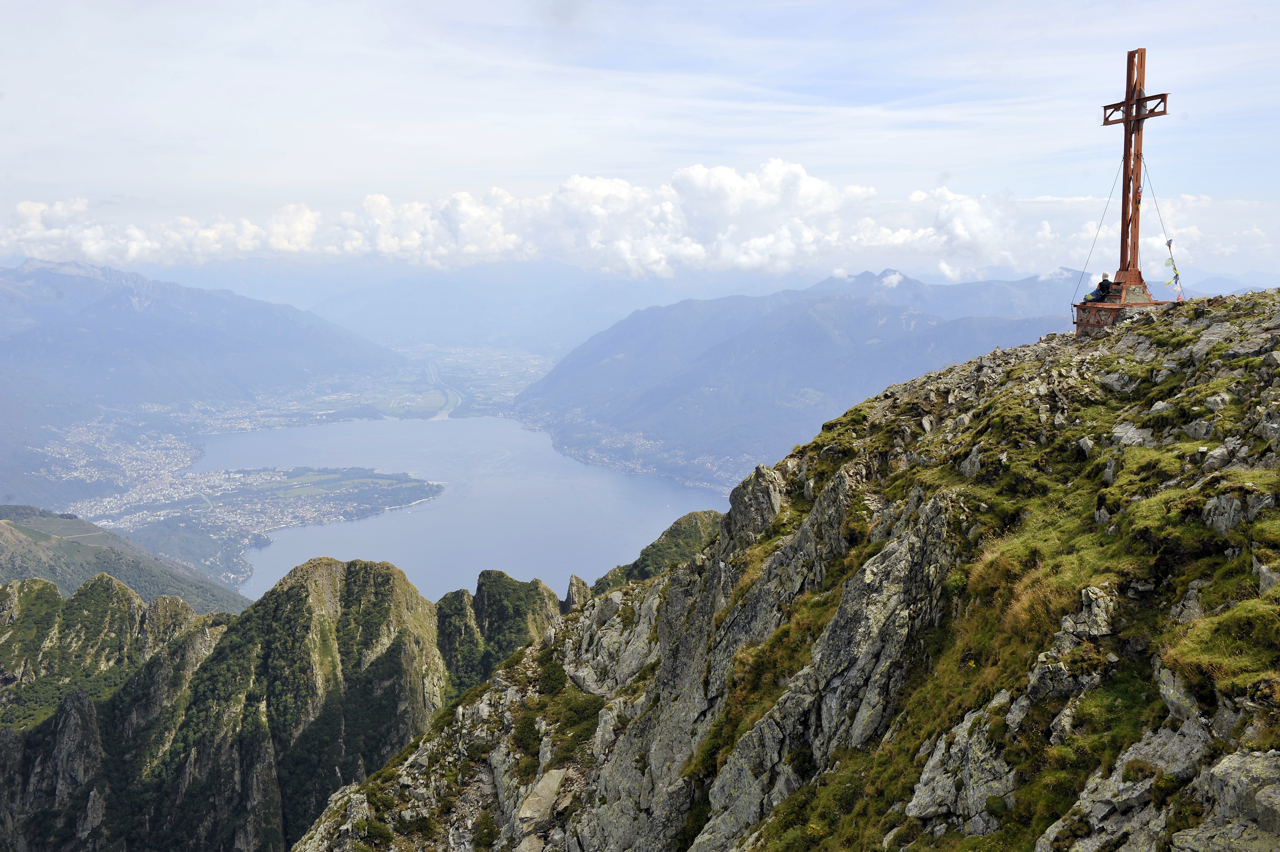 Gridone Peak, view to the northern end of Lago Maggiore